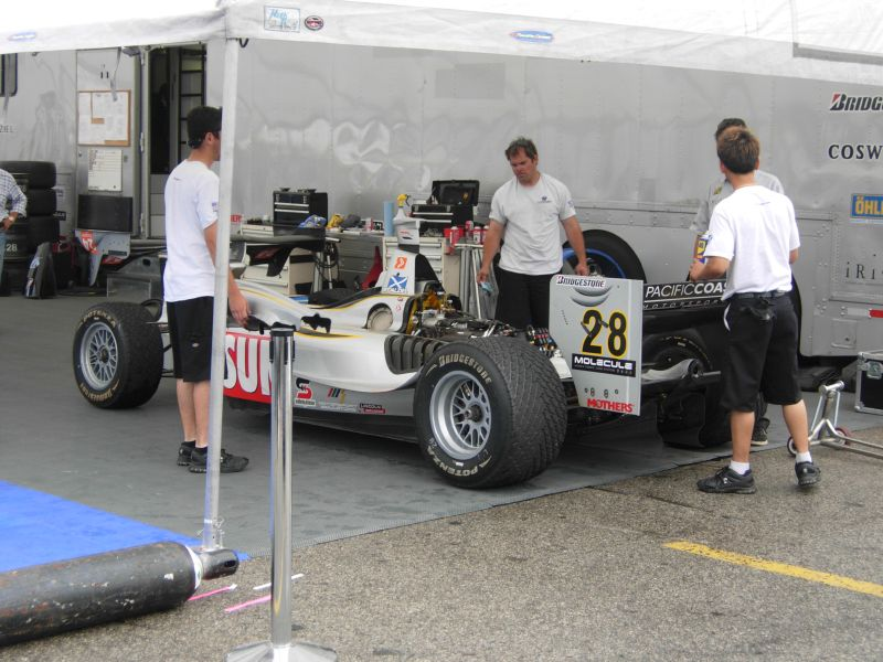 Ryan Dalziel 2007 Champ Car in the pits at the en:2007 Steelback Grand Prix